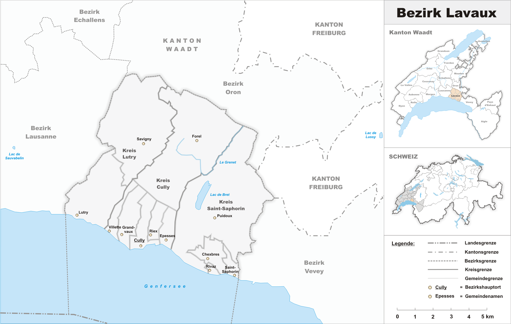 Municipalities in the district of Lavaux